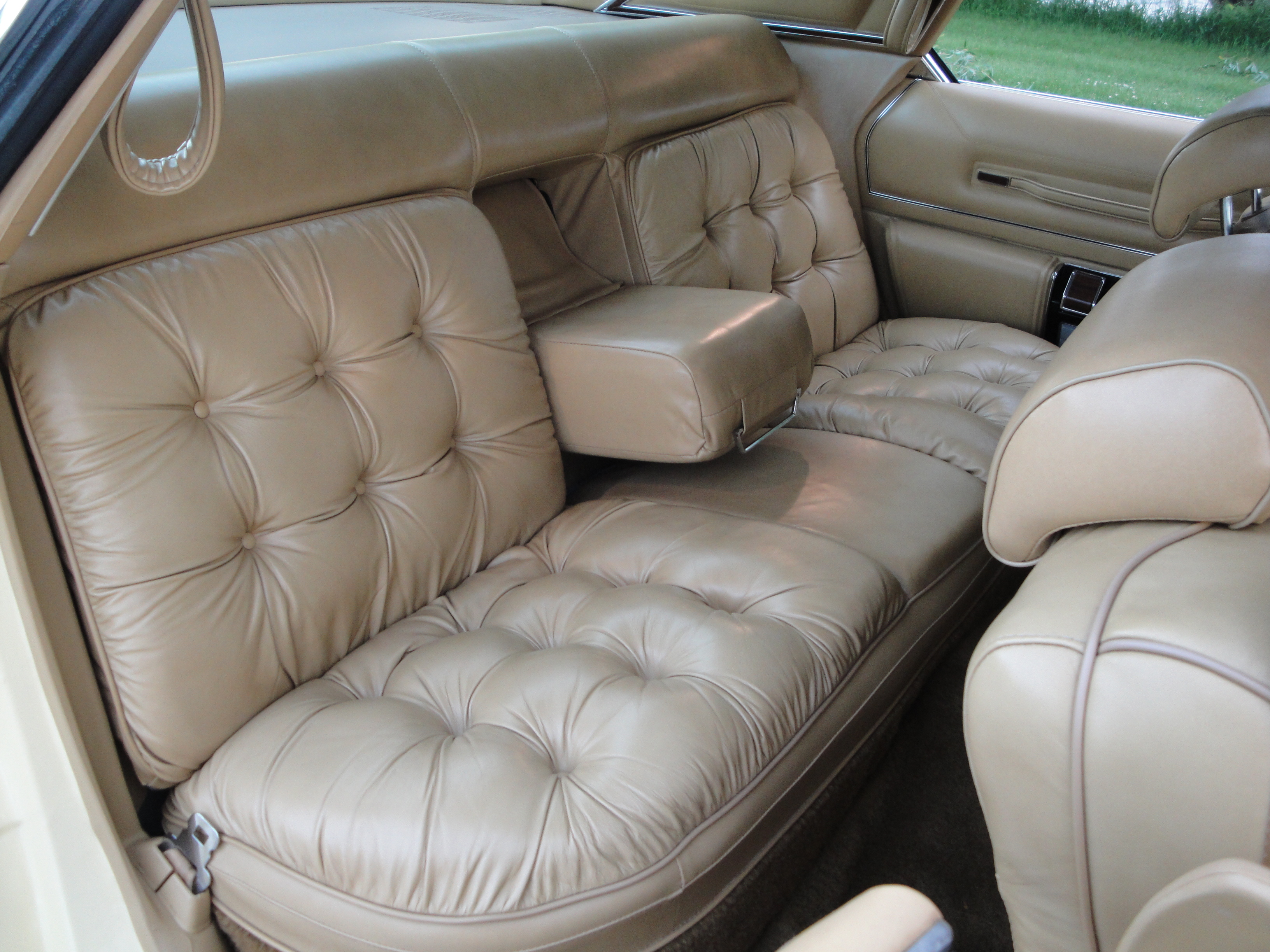 My insurance company forces me to send pictures to add a car to a policy. Everybody knows how much I hate to take pictures of cars.